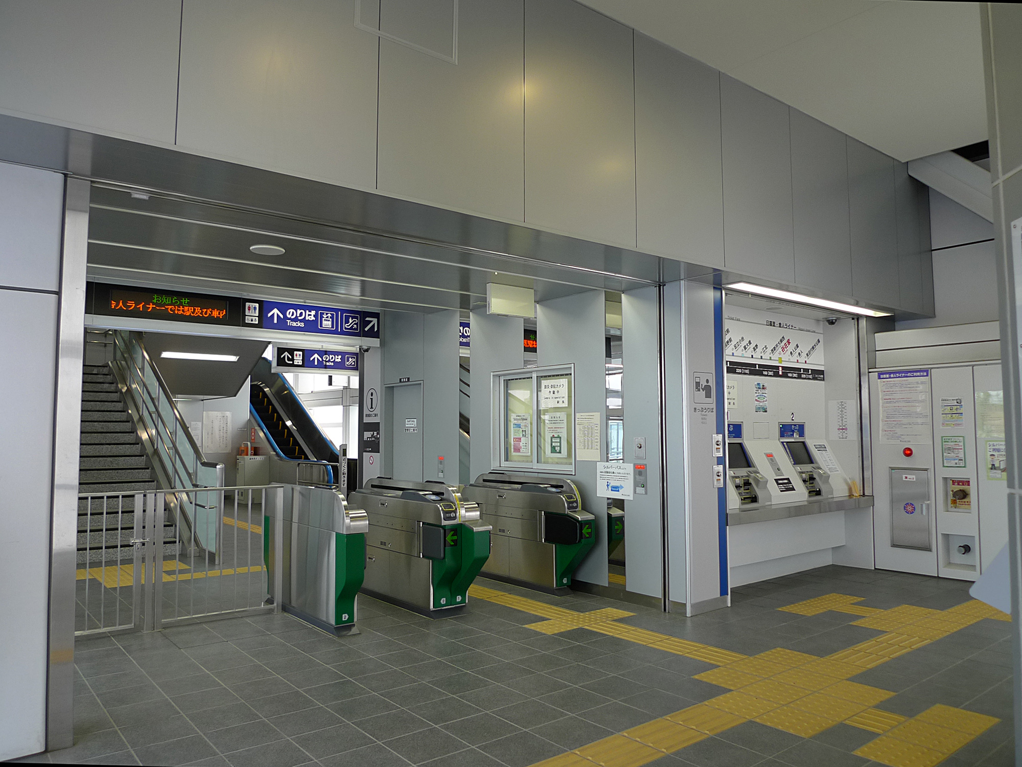 Yazaike Station gate,Nippori-Toneri Liner.